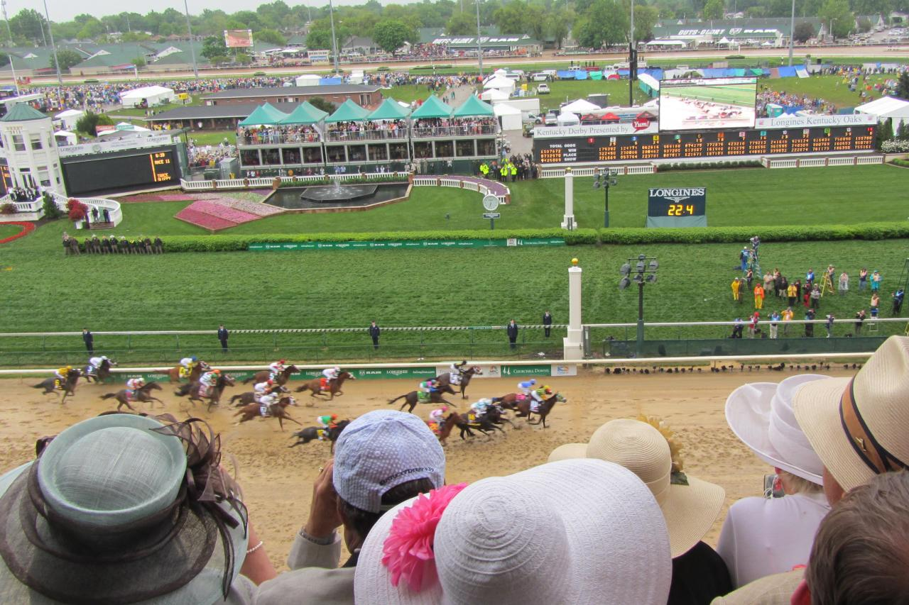 The Kentucky Derby passes the finish line with 1 lap to go.